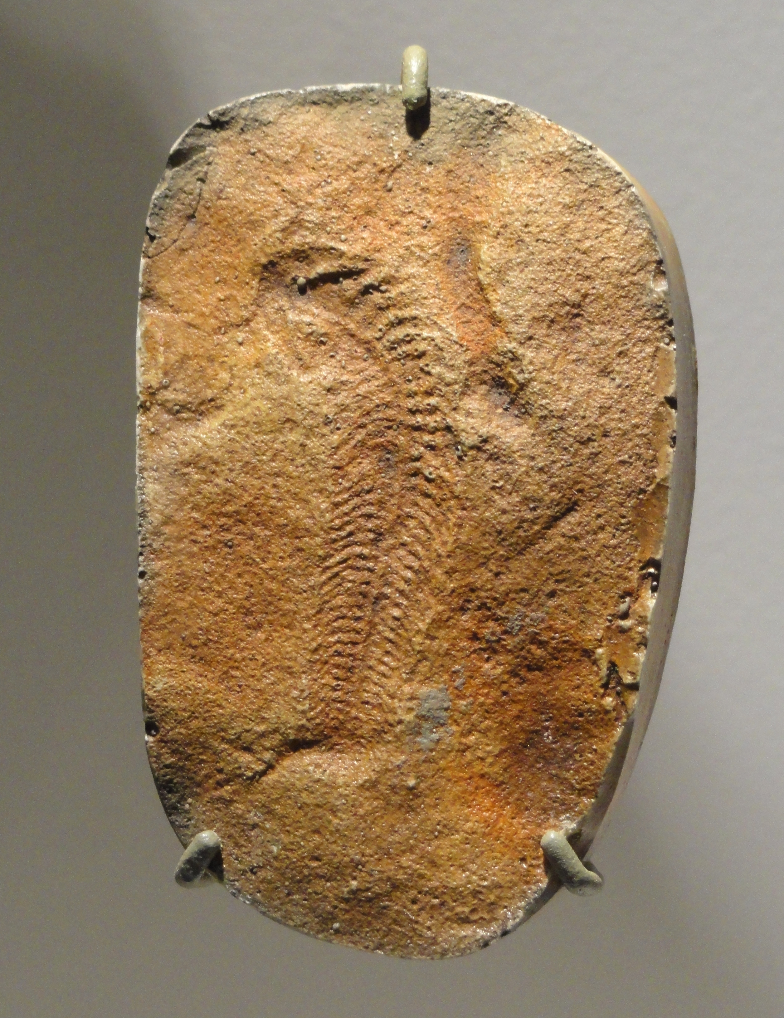 Exhibit in the Houston Museum of Natural Science, Houston, Texas, USA.